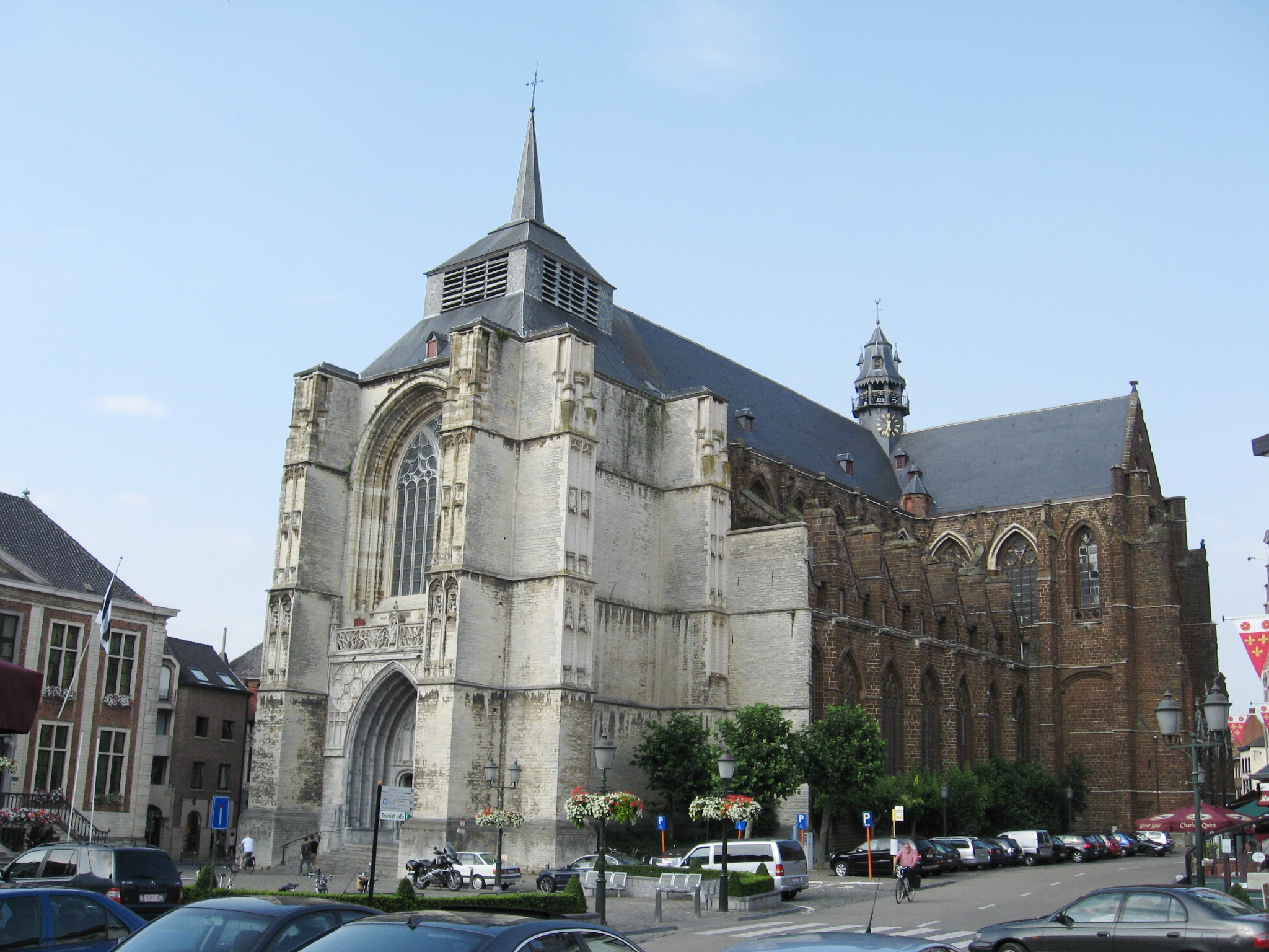 Church of Saint Sulpitius and Denis in Diest, Flemish Brabant, Belgium